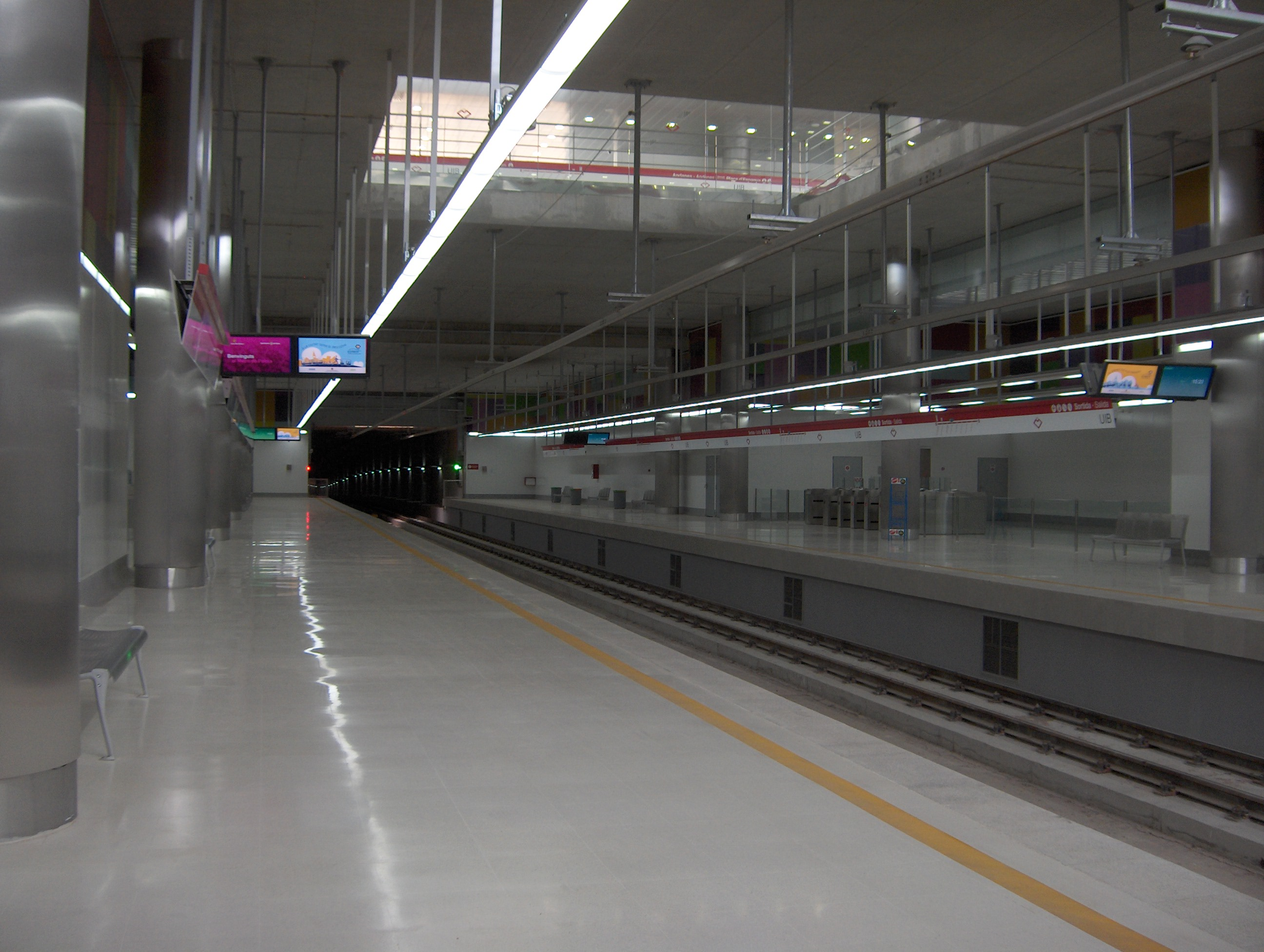 Train Station of the UIB (Universidad de Iles Baleares)